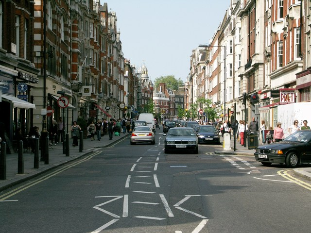 Marylebone High Street